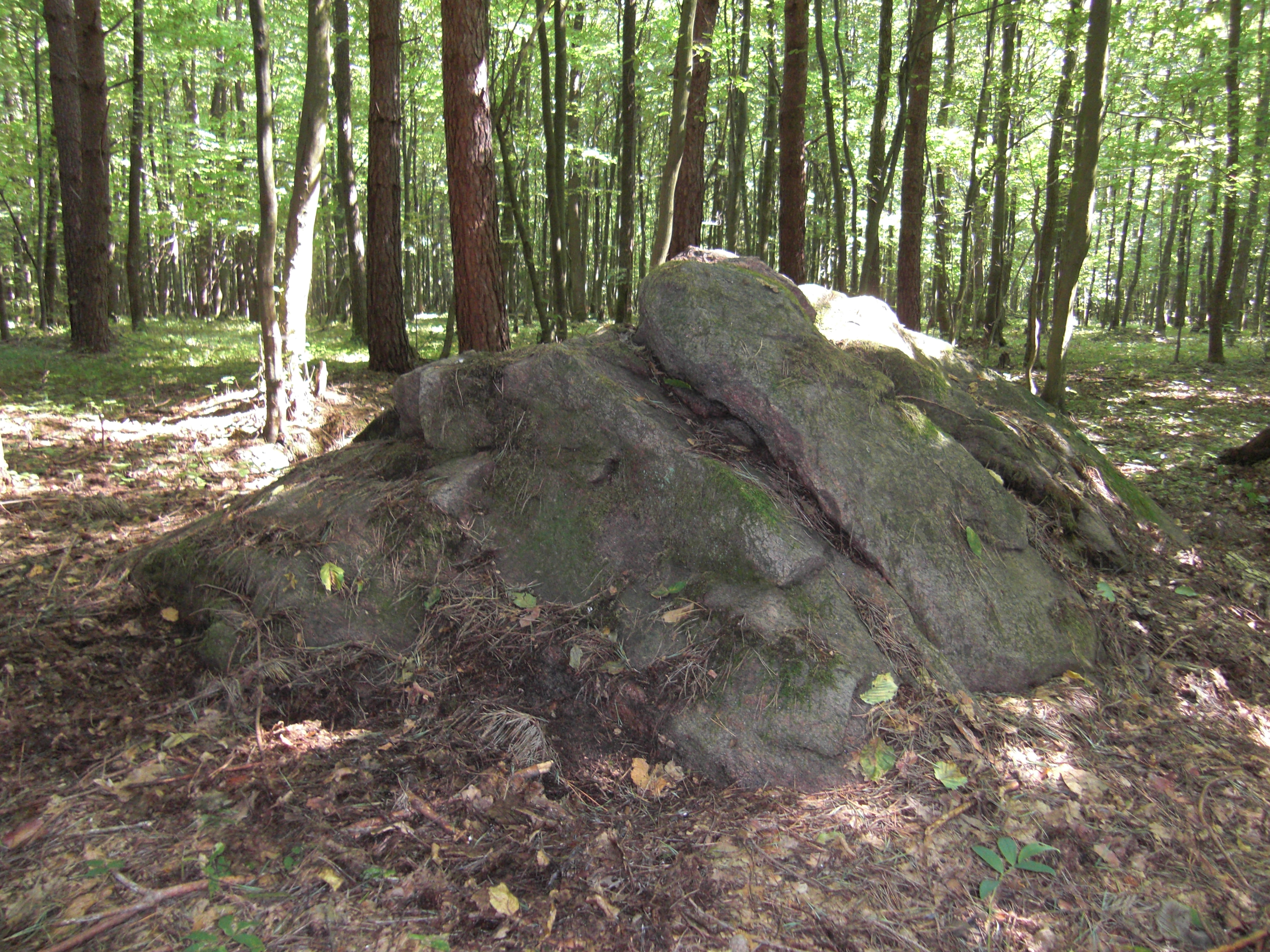 The biggest glacial erratic in Puszcza Białowieska (square 178B)